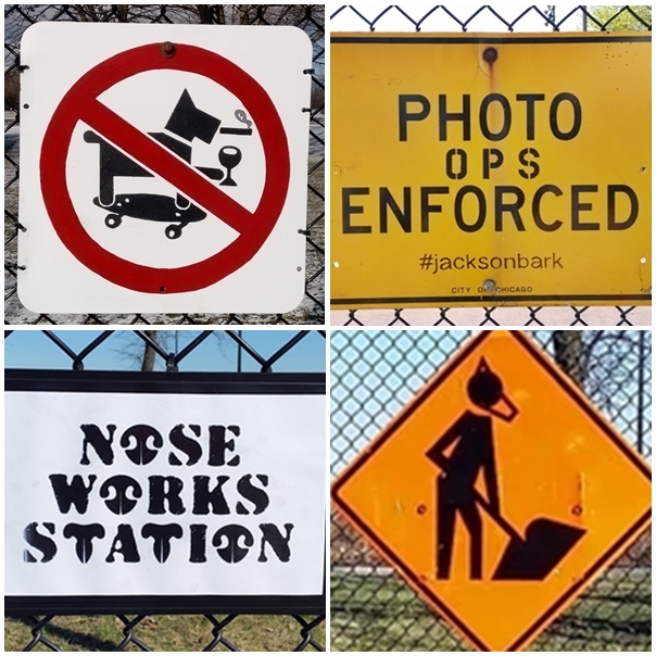 Photo-op signs inspired by contemporary artists Clet Abraham and Izaac Zevalking